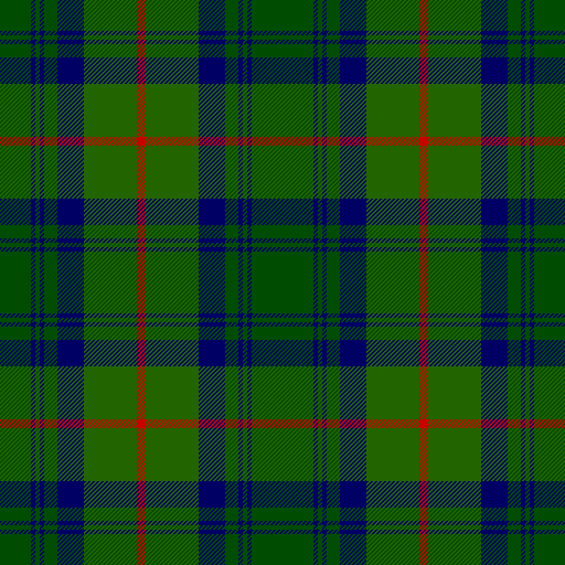 Cranstoun tartan, as published in the Vestiarium Scoticum. Modern thread count: DG28 B2 DG2 B2 DG6 B12 LG24 R4.